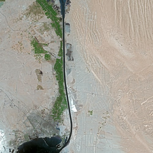 Suez Canal by SPOT Satellite